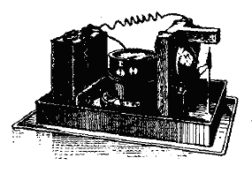 One of the first radio receivers, a simple device that rang a bell when a radio signal was received, built by Russian scientist Alexander Stepanovich Popov in 1895. Built as a lightning detector, to warn of thunderstorms by registering the radio pulses of lightning strikes, Popov demonstrated it before the Russian Physical-Chemical Society in St. Petersburg on 7 May 1895, receiving signals from a spark-gap radio transmitter. In Eastern Europe Popov is regarded as the first person to communicate by radio, and May 7 is celebrated as "Radio Day". It used a primitive radio wave detector called a coherer, invented in 1890 by Edouard Branly consisting of a glass tube with metal filings between two electrodes. The coherer was connected to a wire antenna, and also a circuit with a battery (left) and a relay (cylinder, center). When a radio signal from the antenna arrived at the coherer's electrodes, the metal filings became conductive. The current from the battery flowed through the coherer and energized the relay, closing its contacts, and applying the current from the battery to the electromagnet of the electric bell (right) which pulled its arm over to give the bell a tap. To restore the coherer to its receptive state, the filings needed to be disturbed by tapping it, so when the bell arm sprang back it tapped the coherer, automatically resetting it.